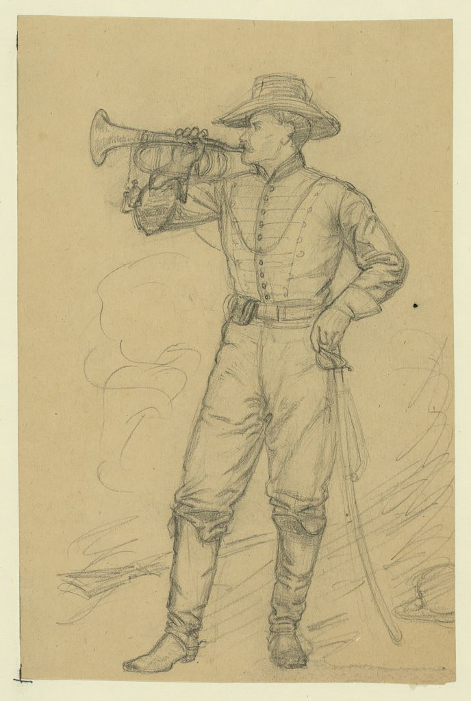 A bugler. 1 drawing on cream paper: pencil; 20.6 x 13.5 cm. (sheet).